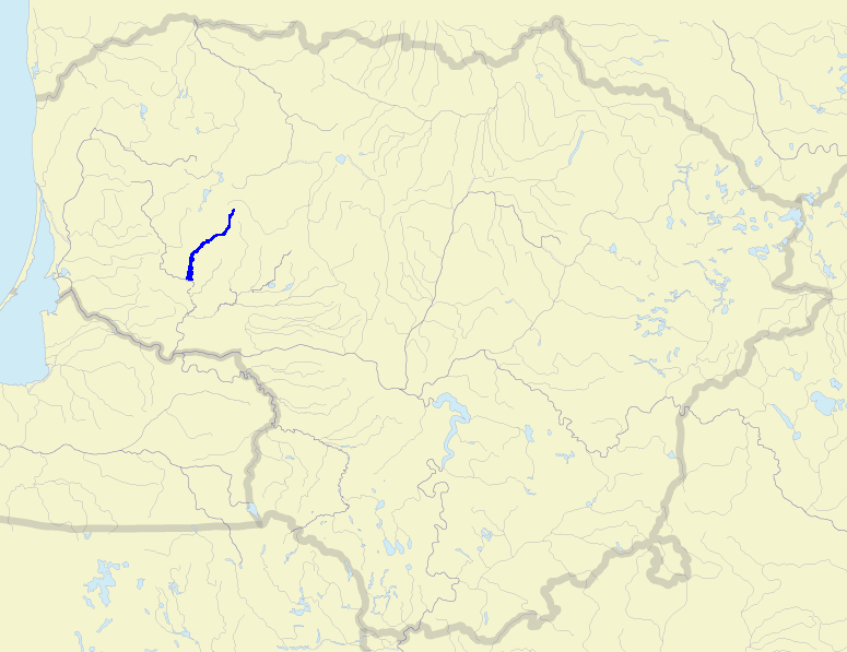 Map of Akmena (Jūra) river